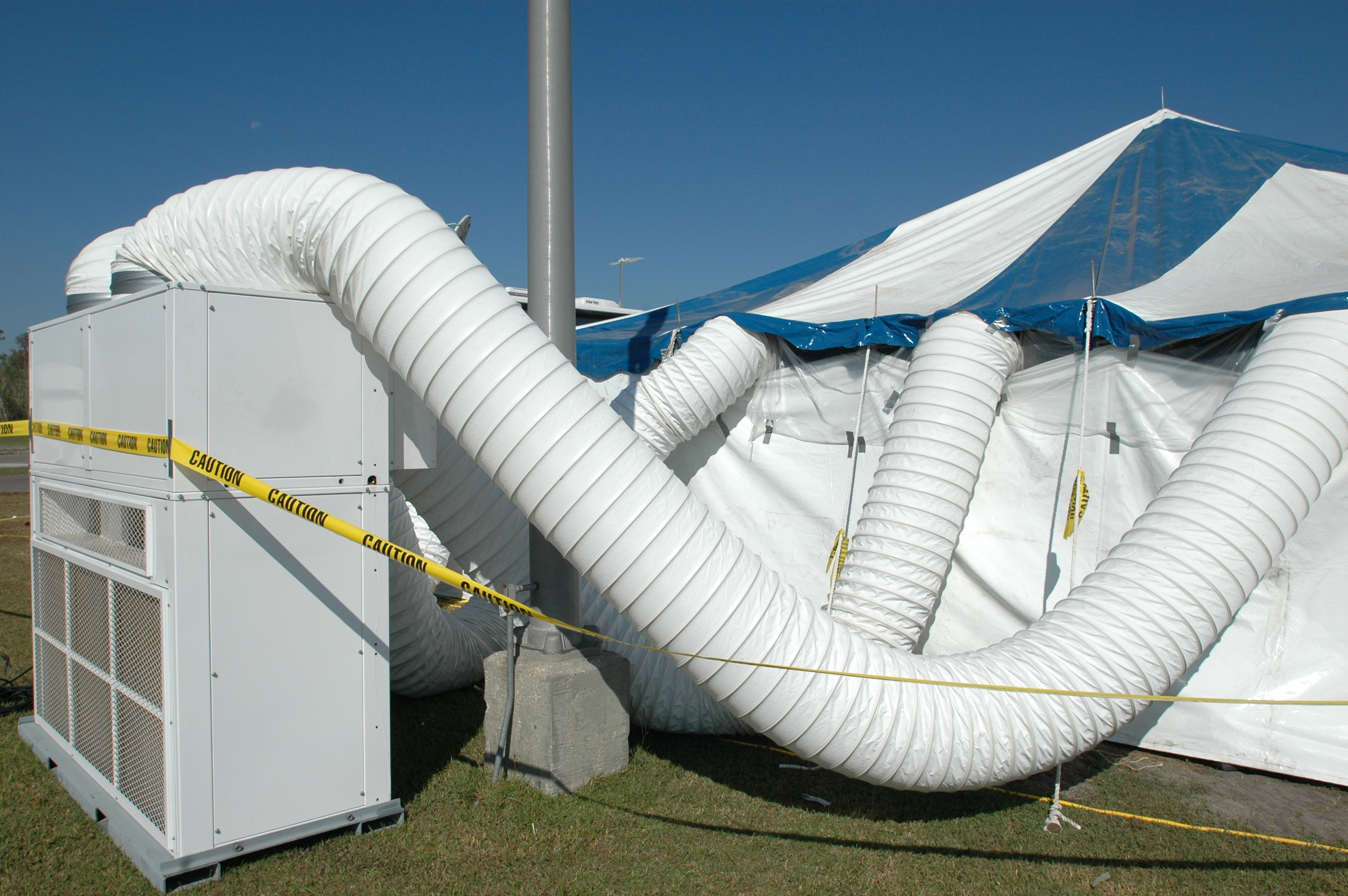 Long Beach, Miss., October 22, 2005 -- A portable air conditioning unit cools the Disaster Recovery Center (DRC) in Long Beach, Miss. DRC's are set up to help residents with the FEMA recovery process. FEMA/Mark Wolfe